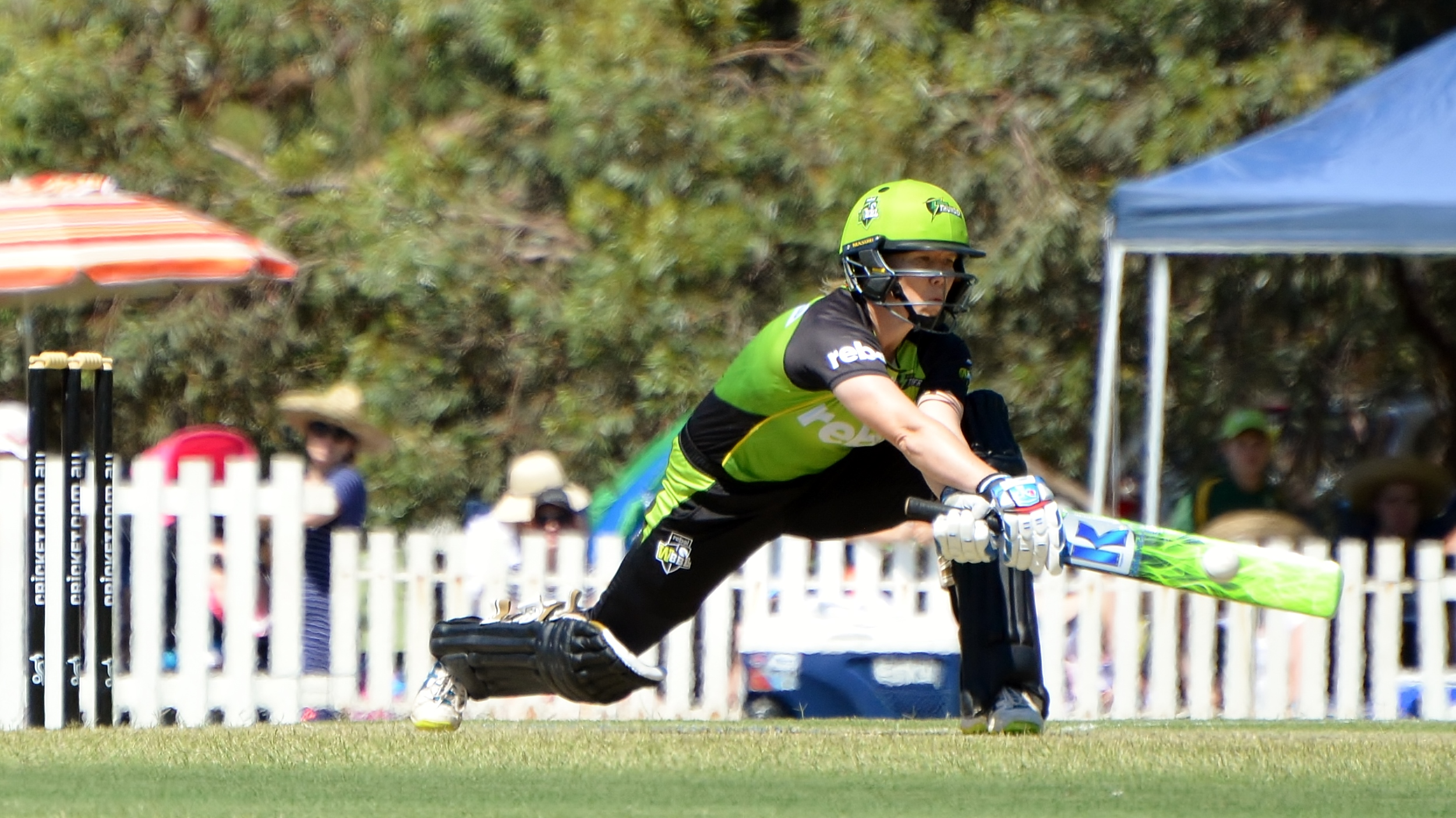 Sydney Thunder captain Alex Blackwell executes a reverse sweep against the Perth Scorchers, in a WBBL match at Lilac Hill Park in Perth